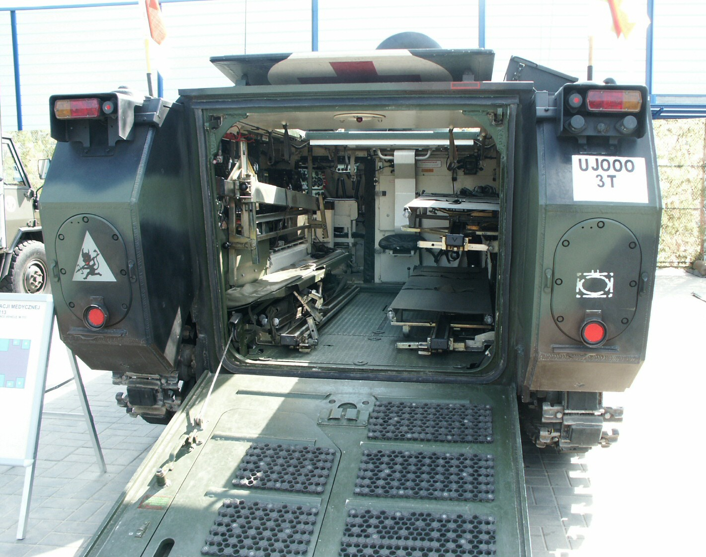 Polish Army ambulance M-113 (ex-German)